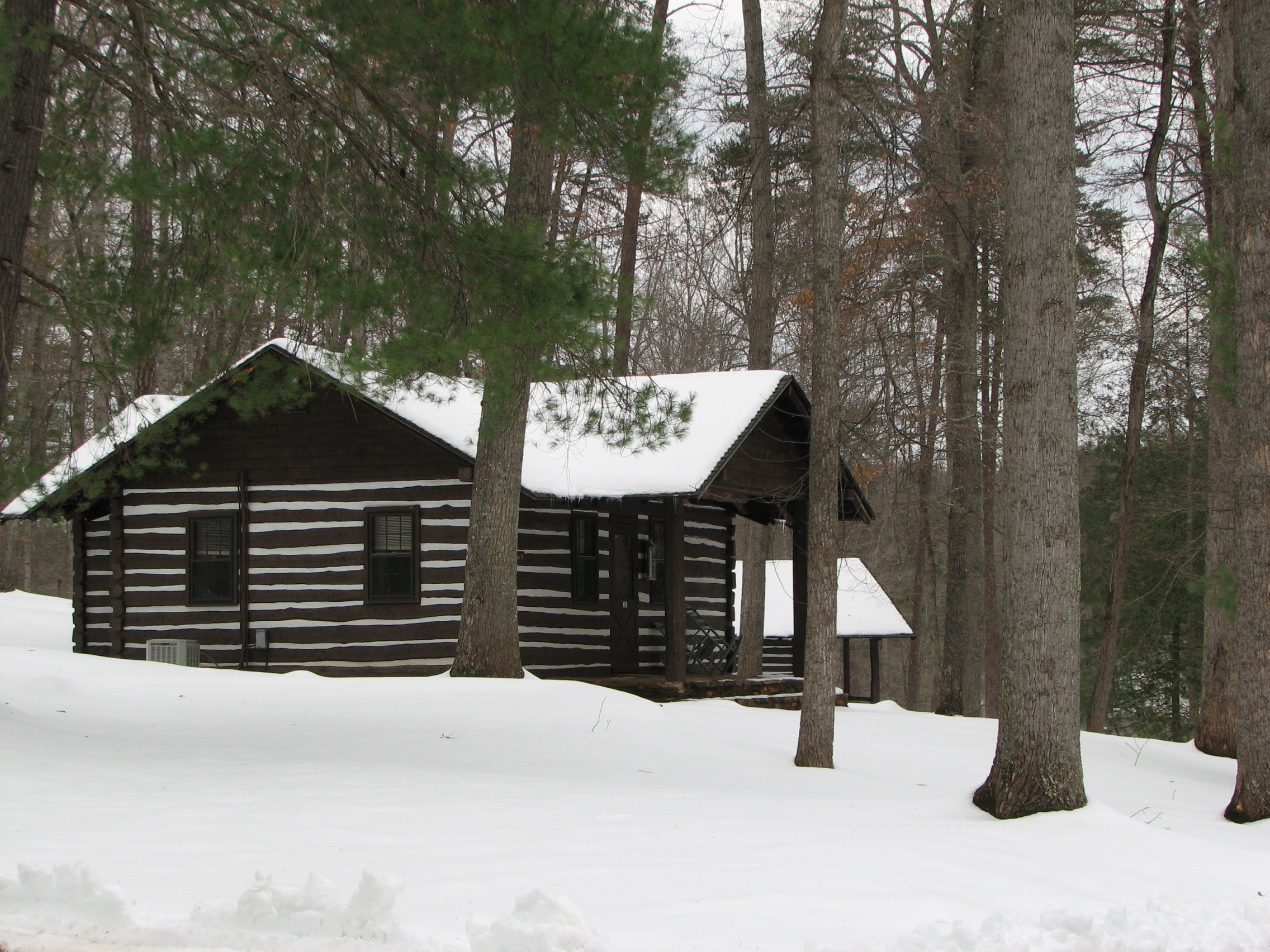 Uploaded by PE